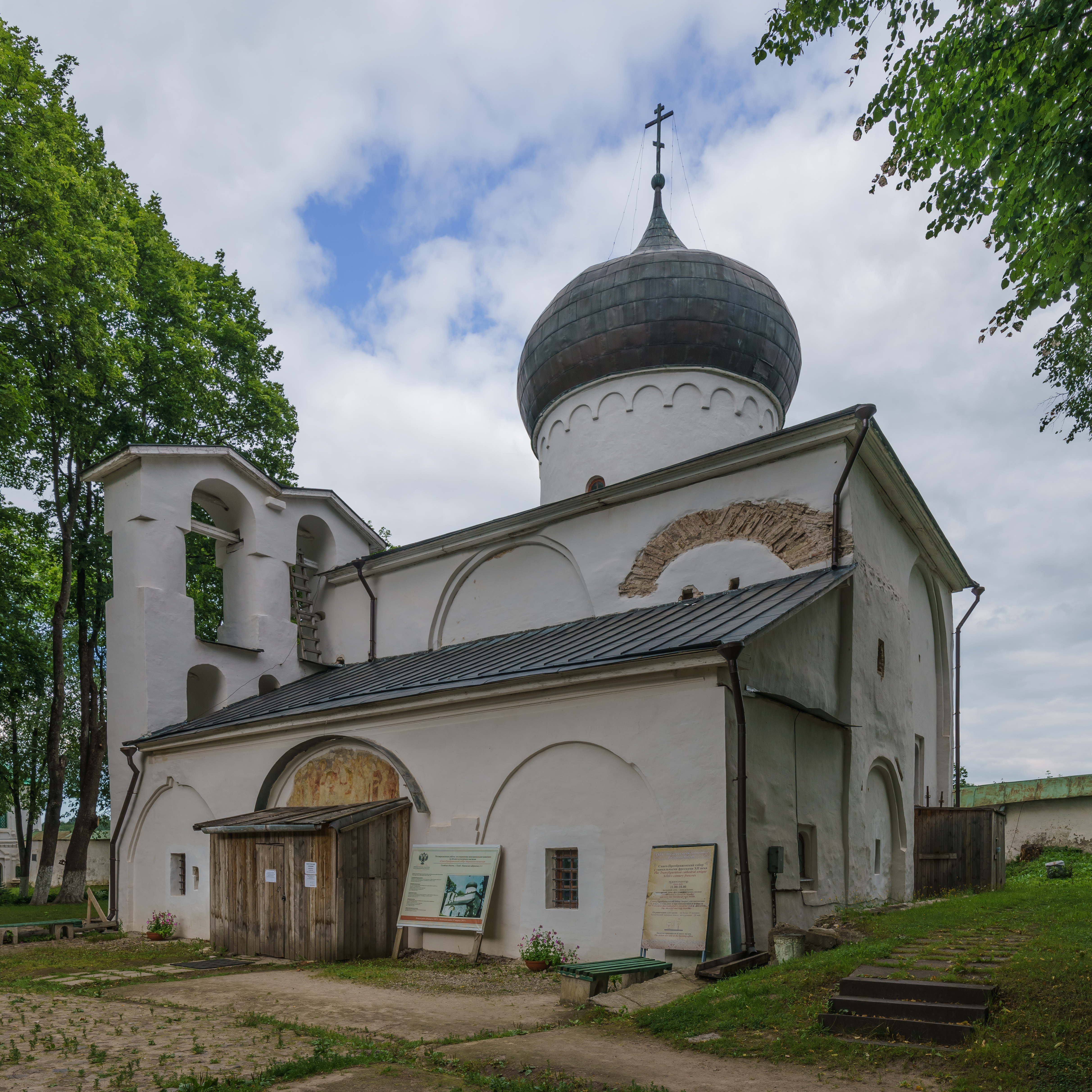 Mirozhsky Monastery in Pskov, Russia